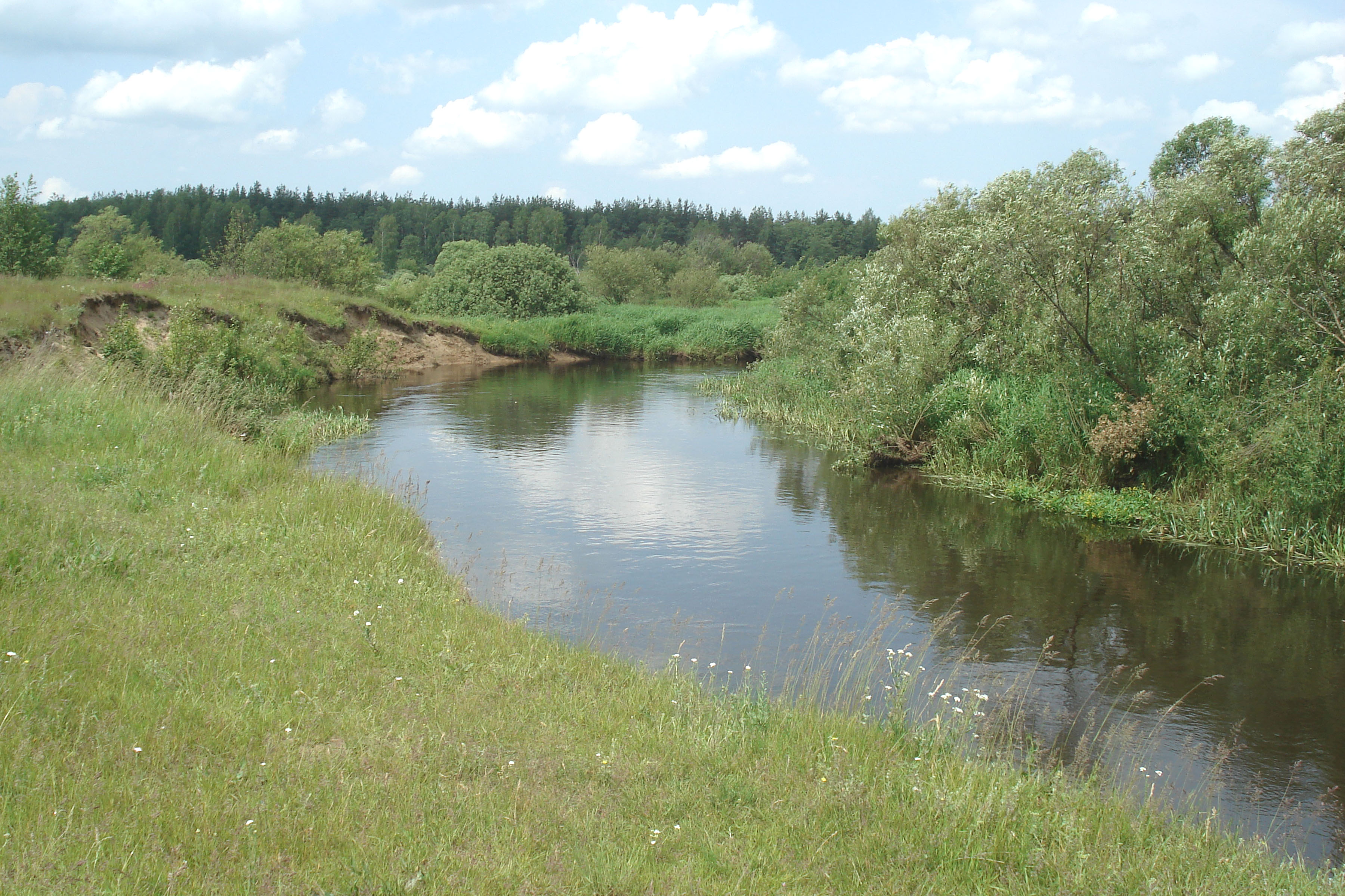 The river Nerskay near the village of Khoteichi, Moscow region